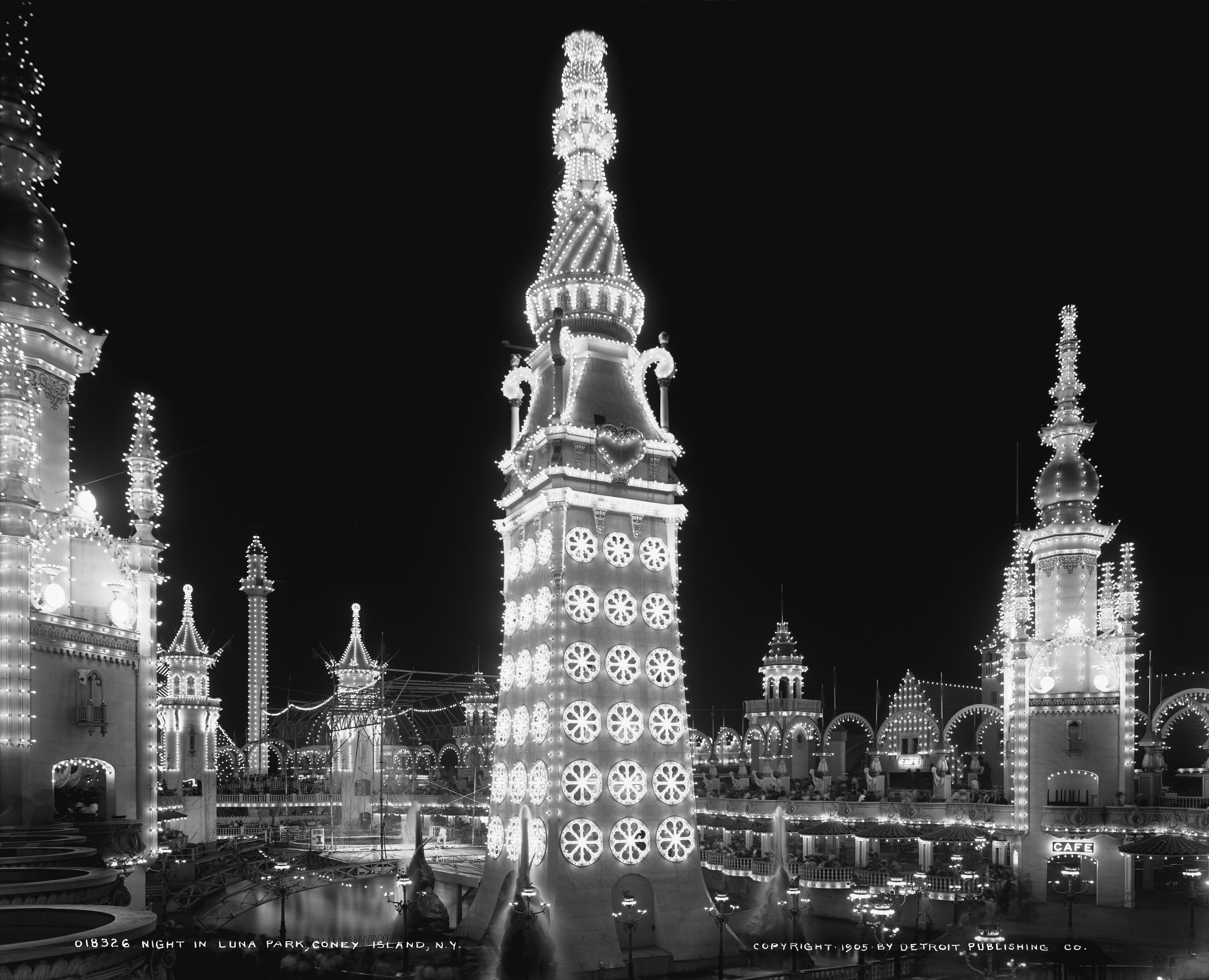 Night in Luna Park, Coney Island, N.Y. Picture taken ca. 1905, and published by the Detroit Publishing Co.